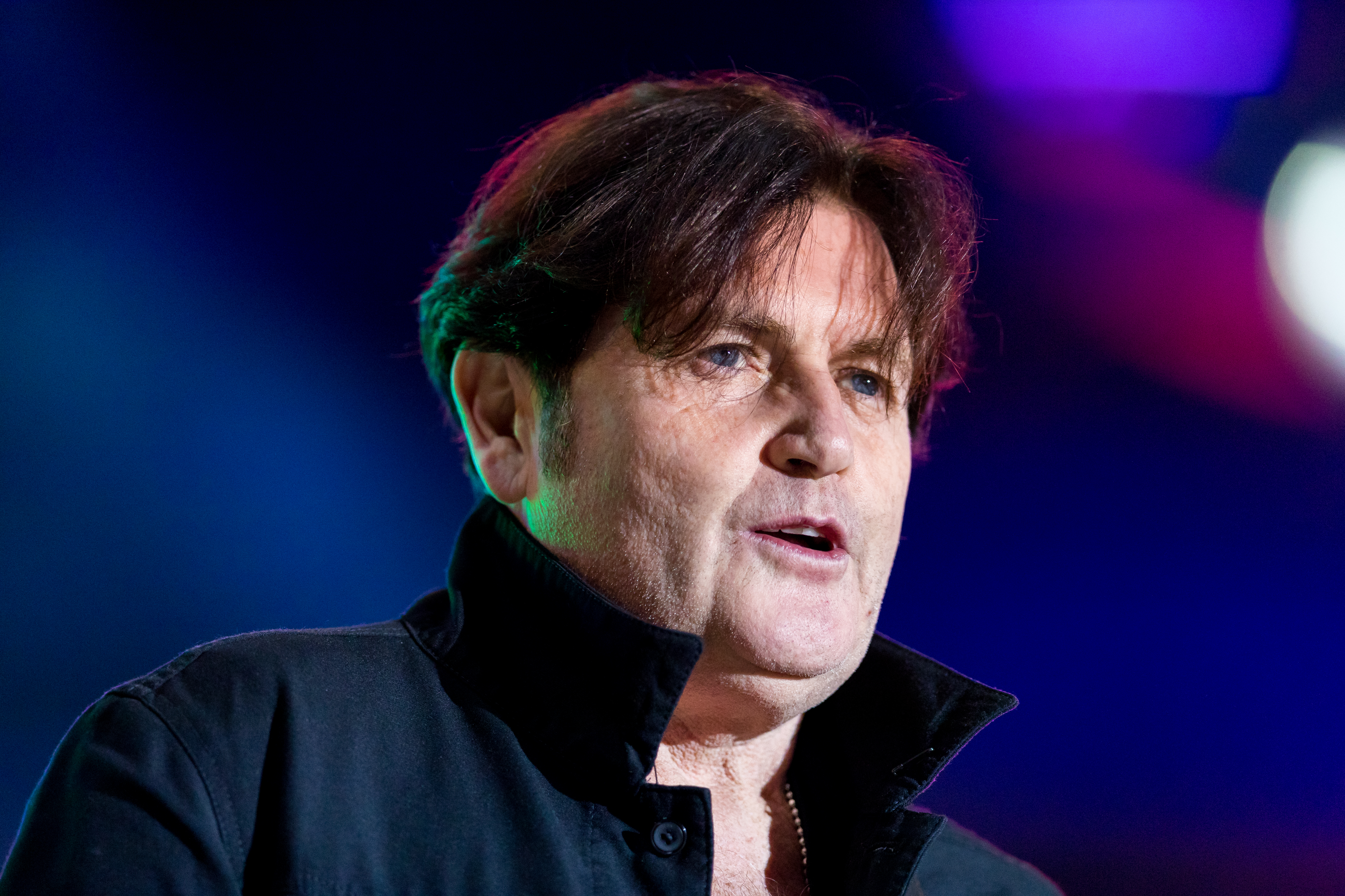 Simple Minds @ Rock the Ring 2018